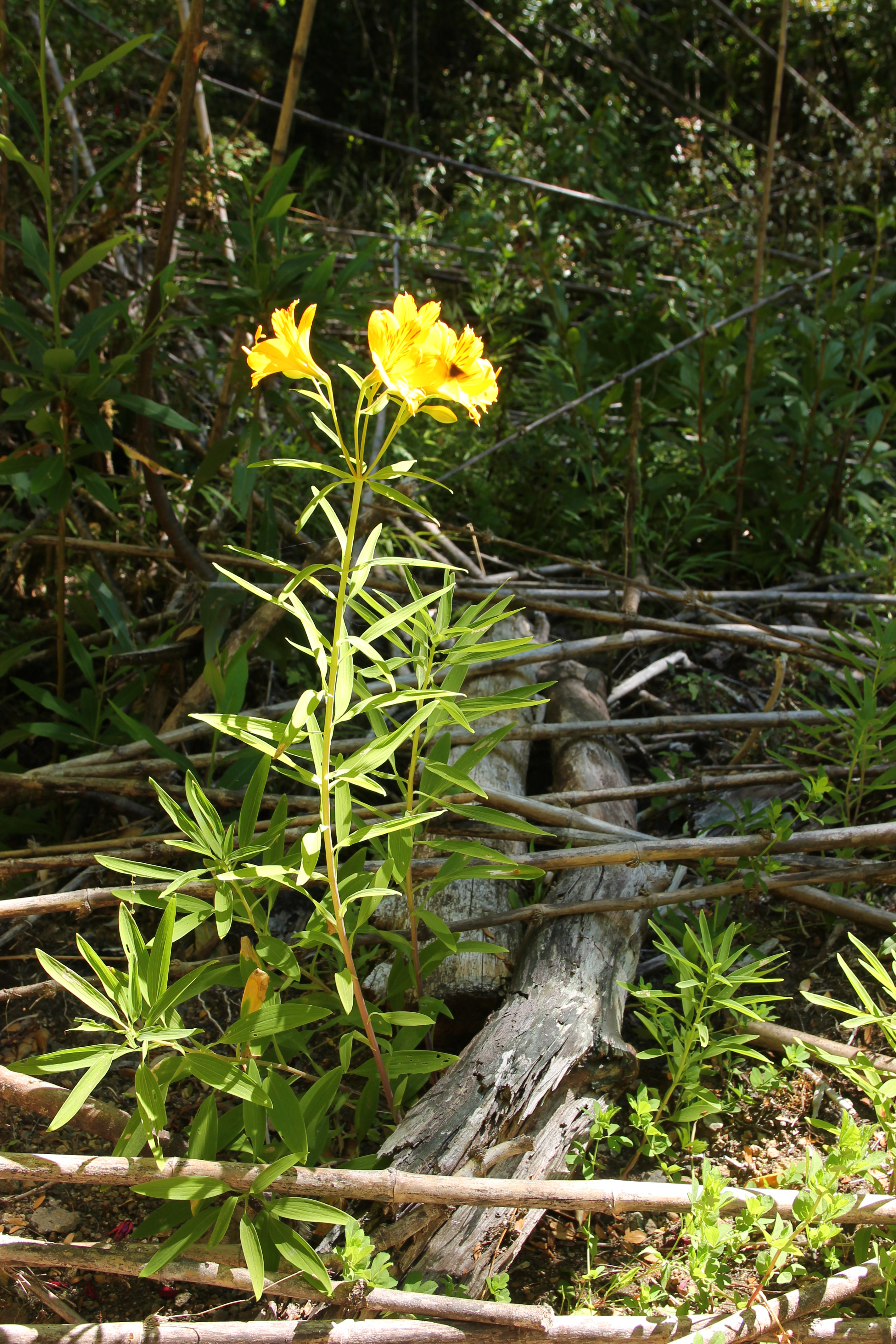 La China Waterfall, Pucón